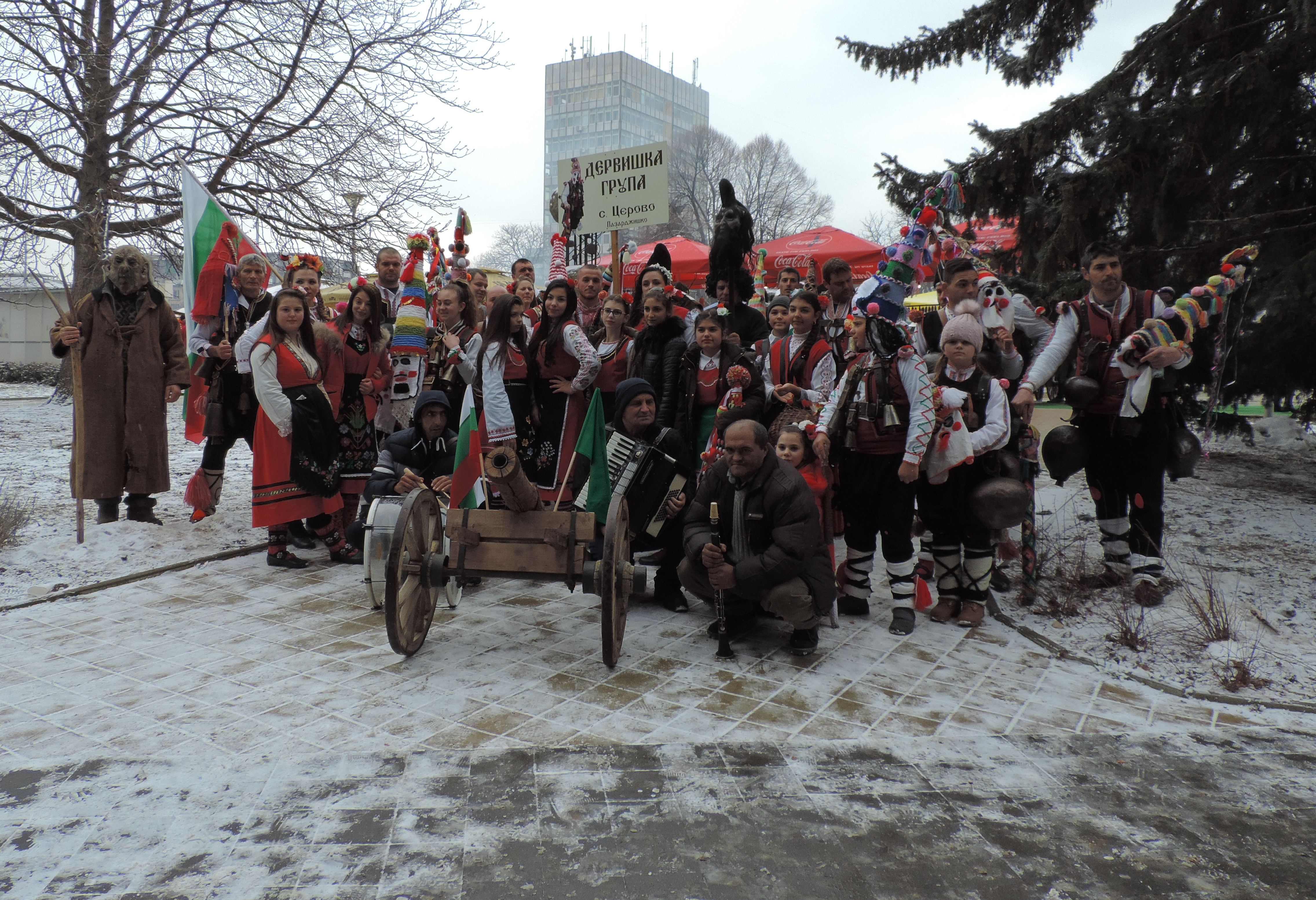 XXVIII International festival of masquerade games "Surva", Pernik 2019